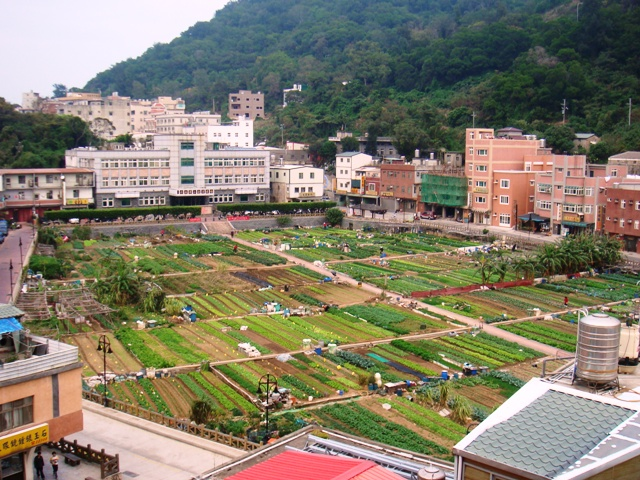 Vegetable Farming Park, located just in front of Lienchiang County Hall